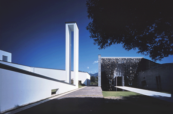 Villa Esterio